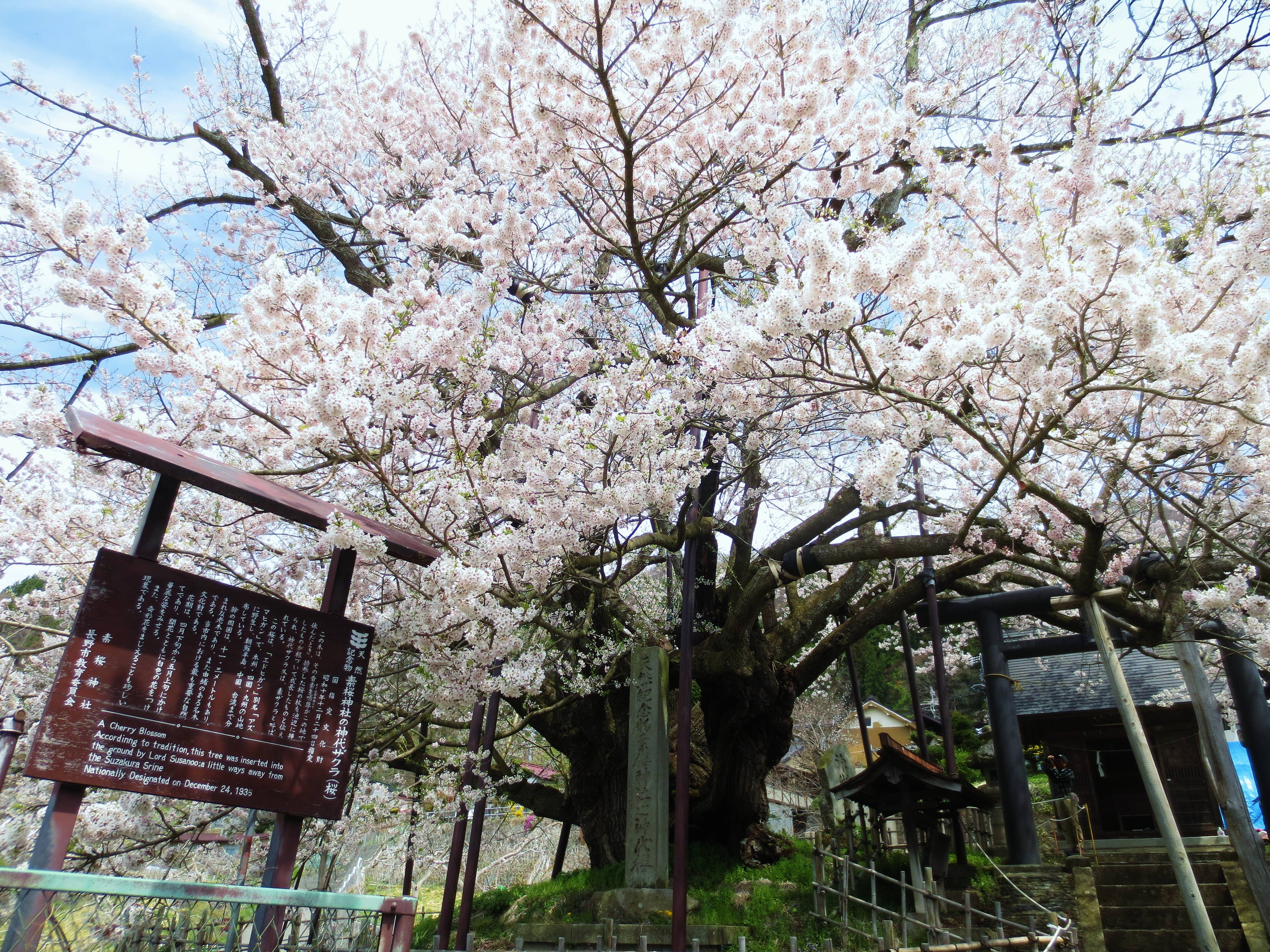 Suzakura-jinja Jindaizakura.